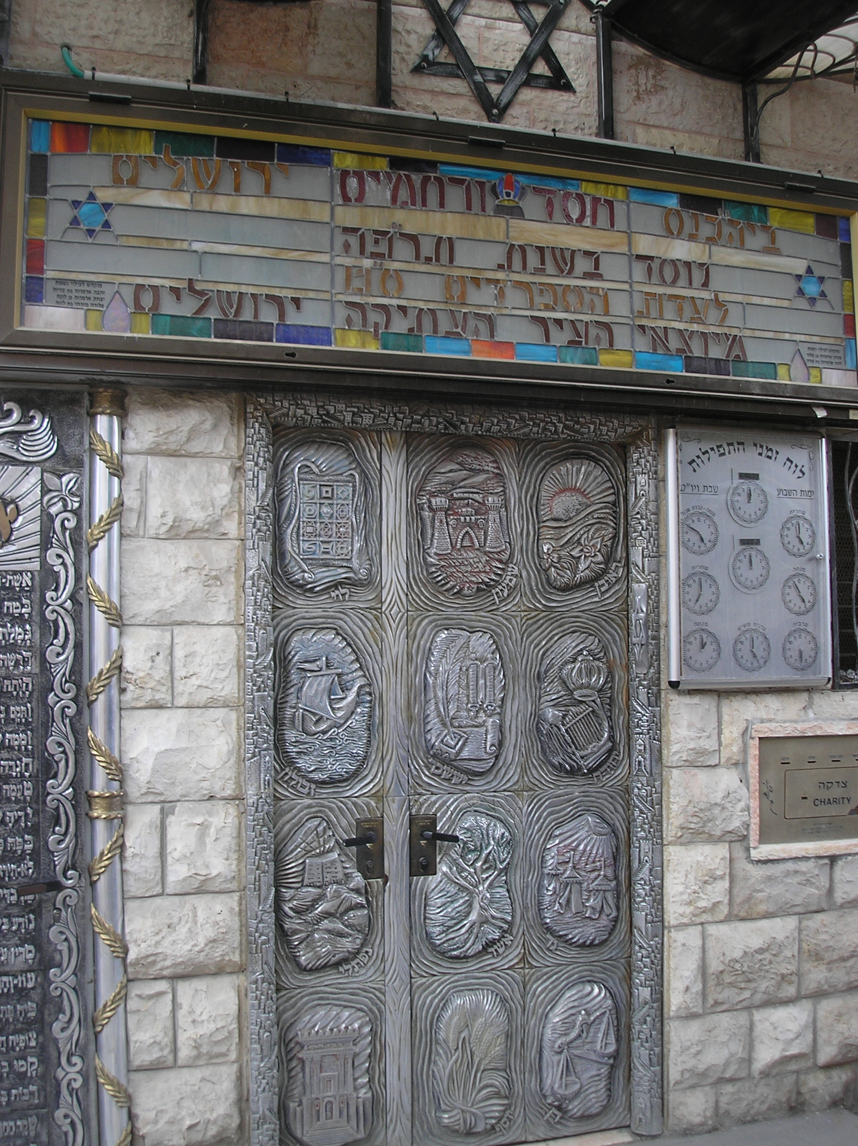 Hesed VaRahamim Synagogue in Mazkeret Moshe in Nahlaot - on the dorr, the emblems of the 12 tribes of Israel : Reuven, Shimeon, Levi Judah, Issachar, Zebulon Gad, Asher, Naftali Dan, Yossef, Benjamin